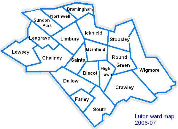 Created by me, with reference to Luton council publication